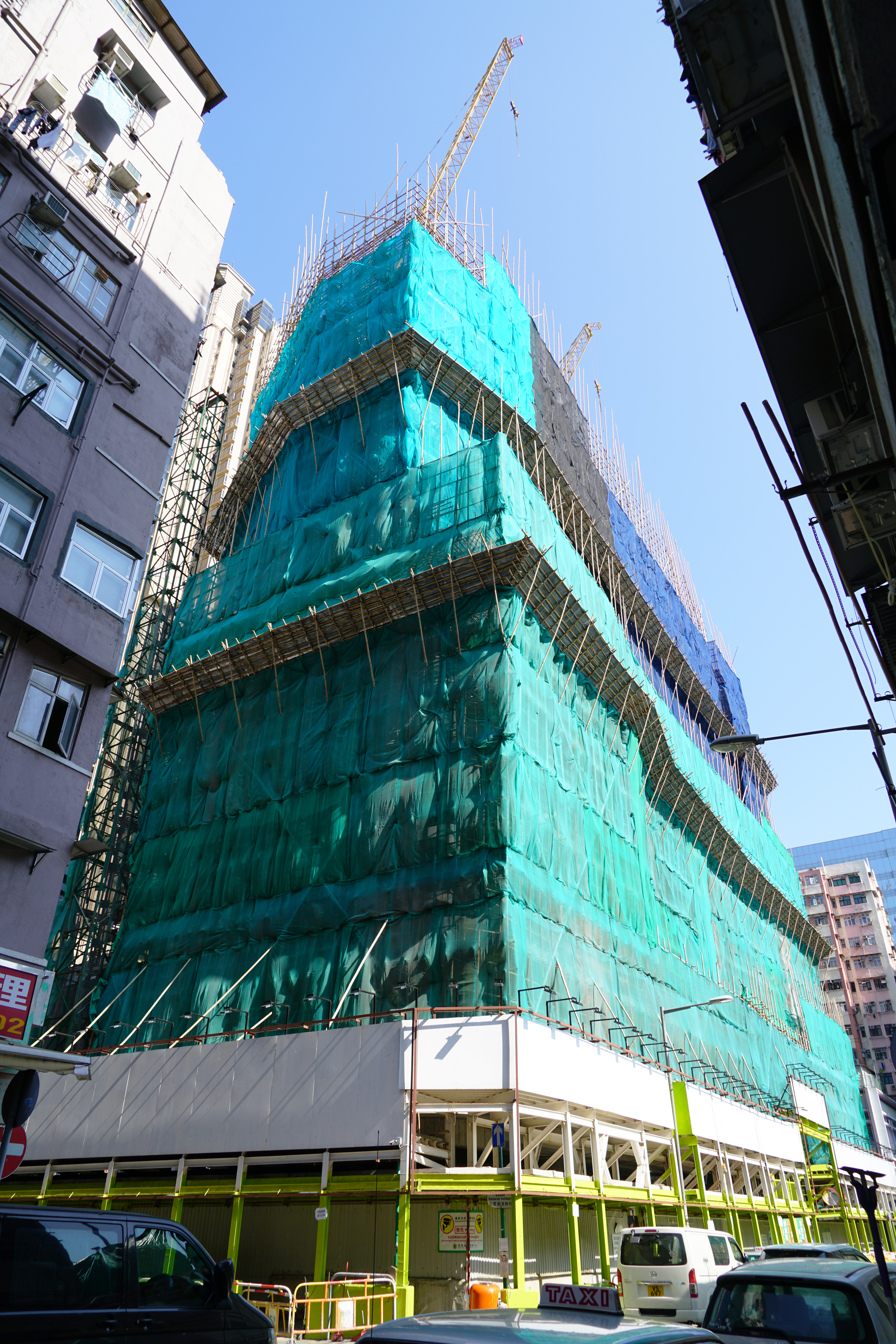 Aquila · Square Mile, Hong Kong.